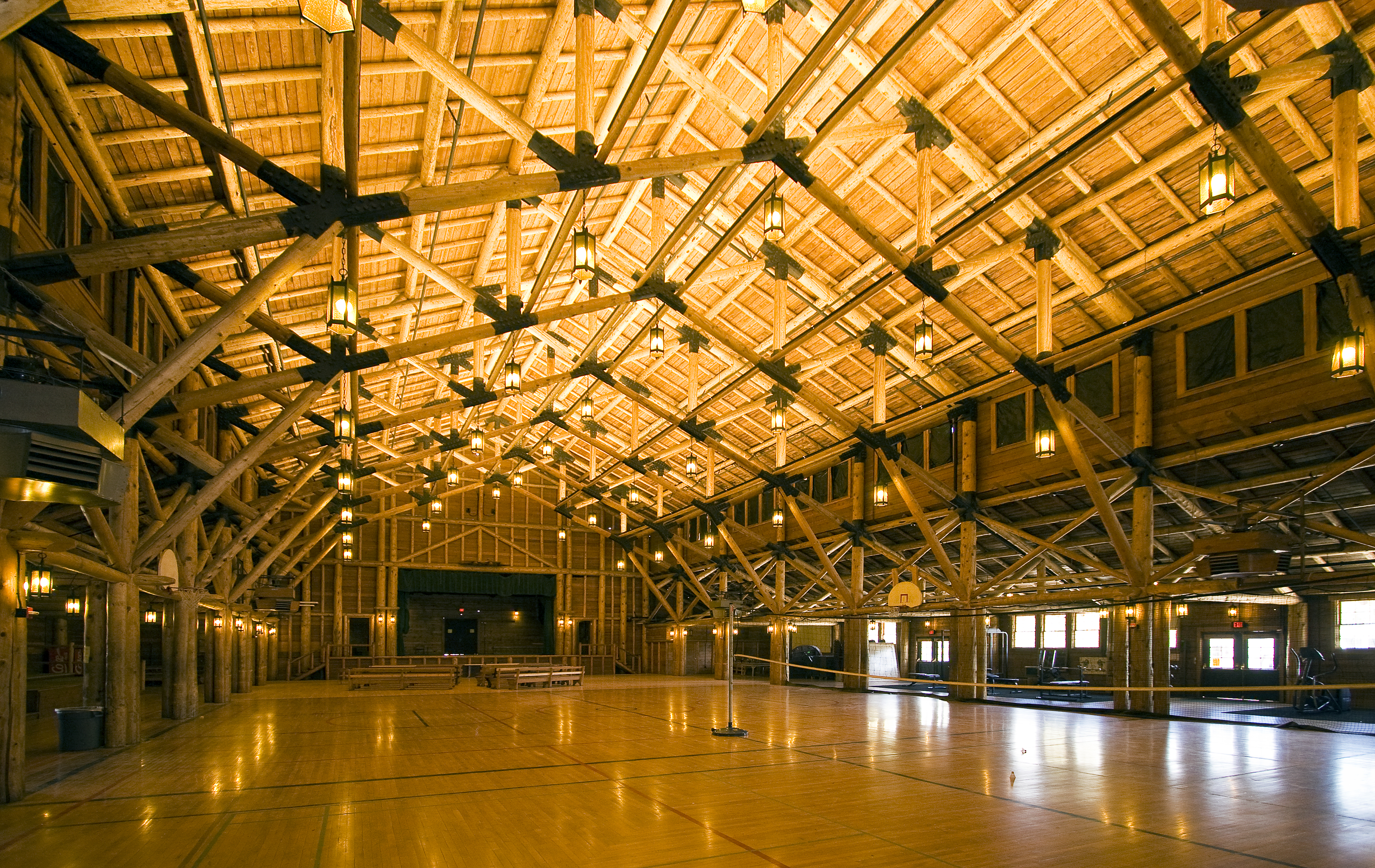 Geyser Hall, in the Old Faithful Lodge, Yellowstone National Park, Wyoming, USA.